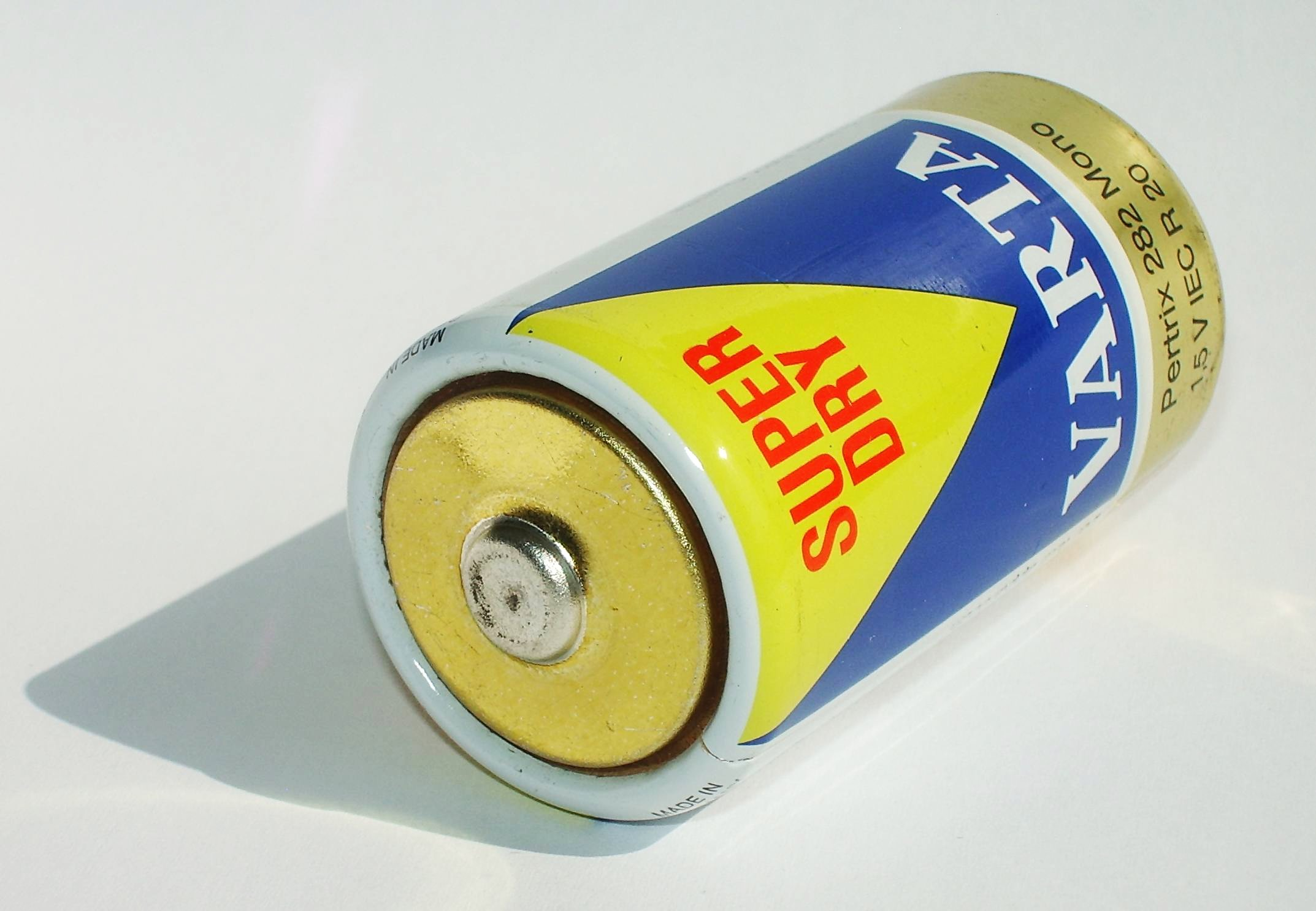 Zink-Chloride battery, D-Cell-size, as made in germany by Varta (Pertrix) during the 1970s. This battery was found in the battery box of a german "FFOB/ZB" military field telephone. Voltage still at 1.55V after more than 30 years.